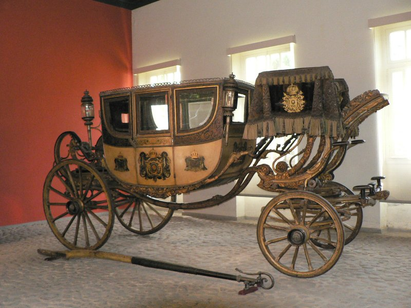 Coach inside the Imperial Palace of Petrópolis, Brazil